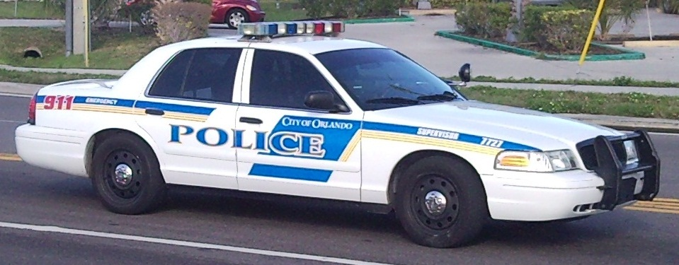 Ford Crown Victoria Police Interceptor of the Orlando Police Department photographed in Orlando, Florida, USA.